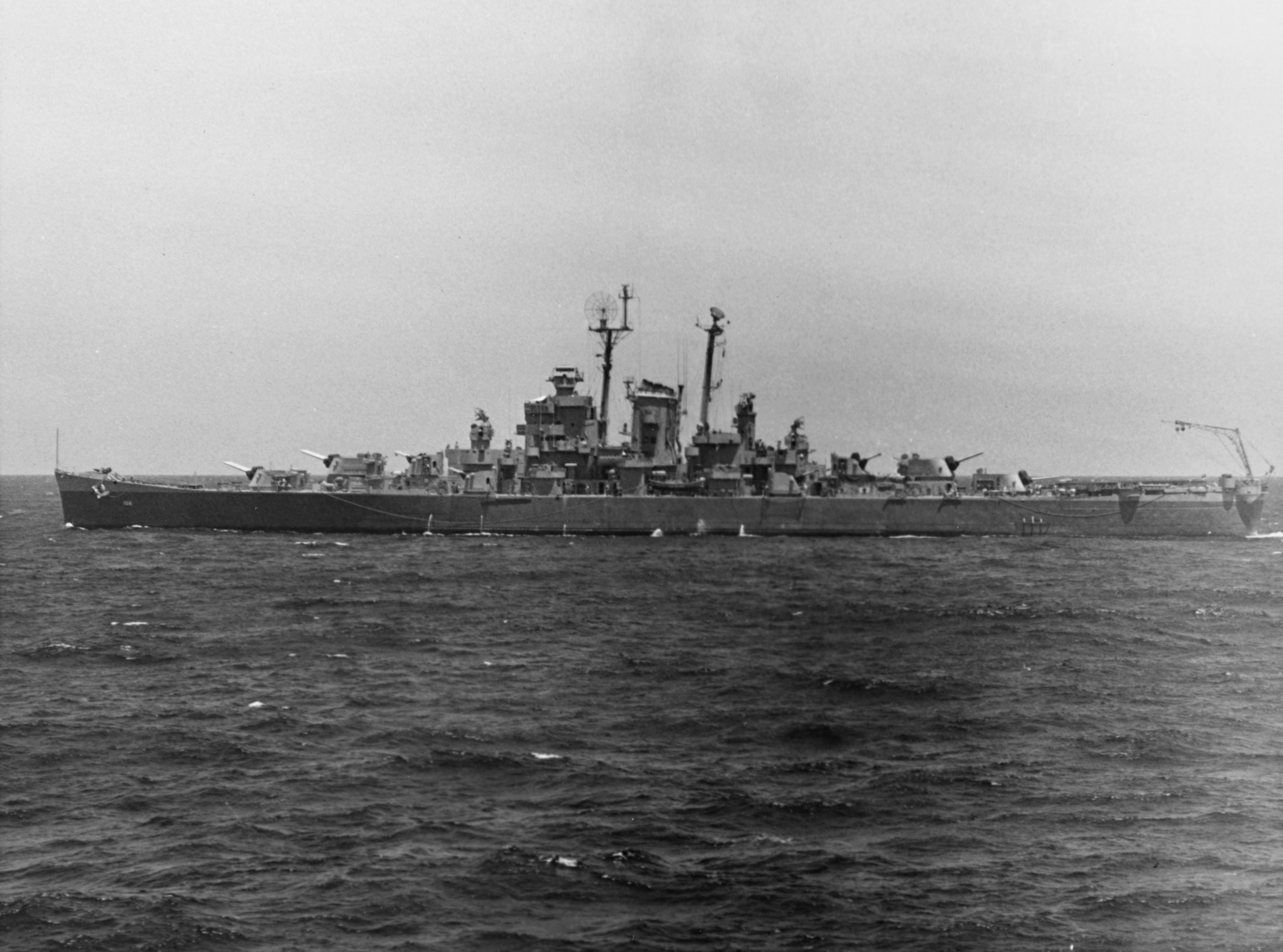 The U.S. Navy light cruiser USS Fargo (CL-106) underway at sea on 8 May 1946. Fargo sailed from Philadelphia, Pennsylvania (USA), on 15 April 1946, for a goodwill cruise to Bermuda, Trinidad, Recife, Rio de Janeiro and Montevideo, from which she took departure on 31 May for the Mediterranean Sea. Note that Fargo is still painted in wartime Camouflage Measure 22.